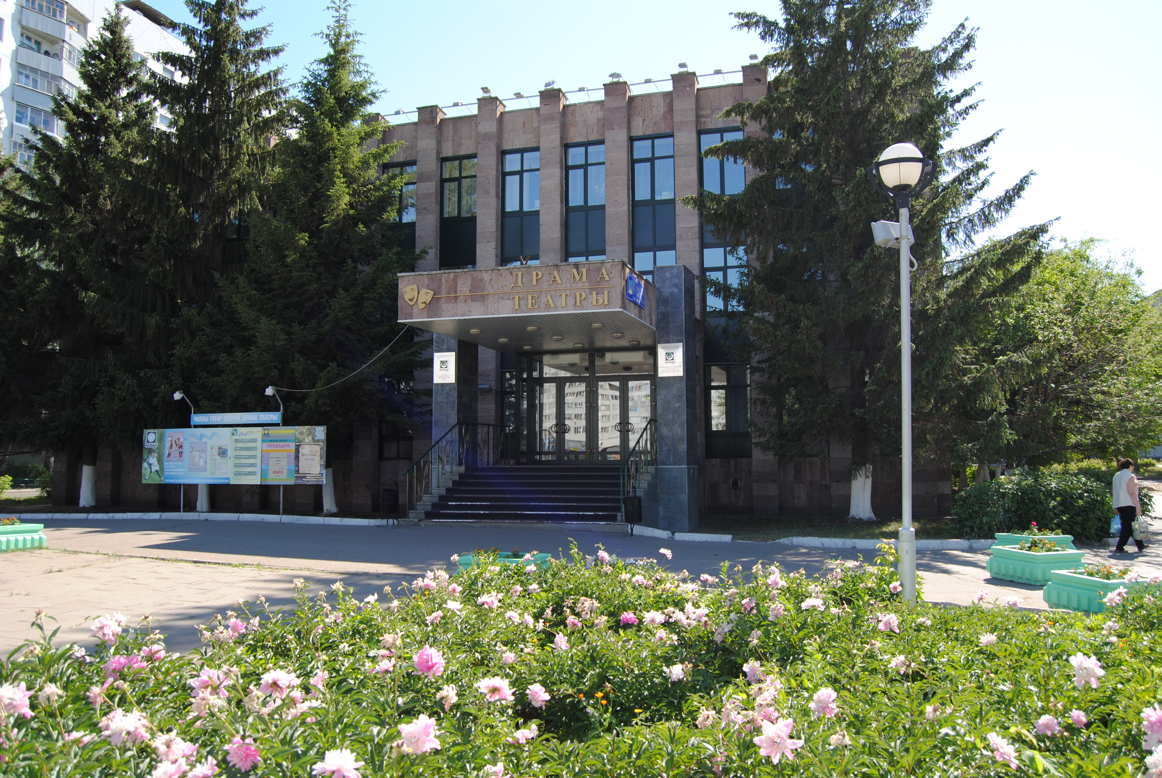 Naberezhnye Chelny State Tatar Drama Theatre